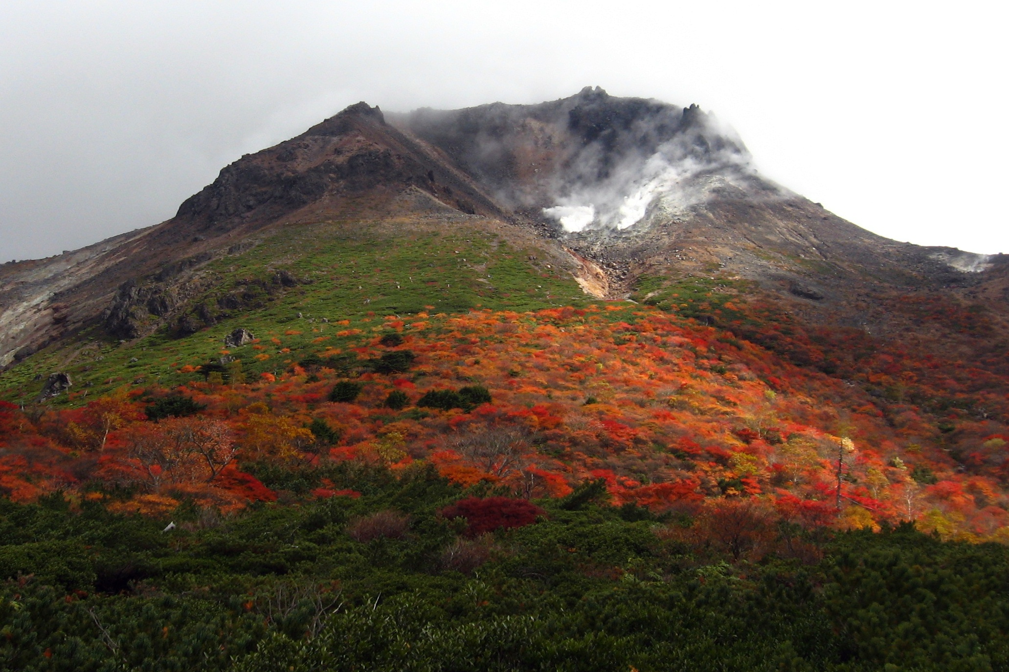 The Wast face of Mount Chausu (Chausu-dake) in Mount Nasu, Japan.